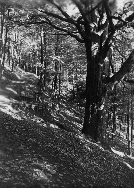 beech of Alois Jirásek near Hronov, Czech Republic